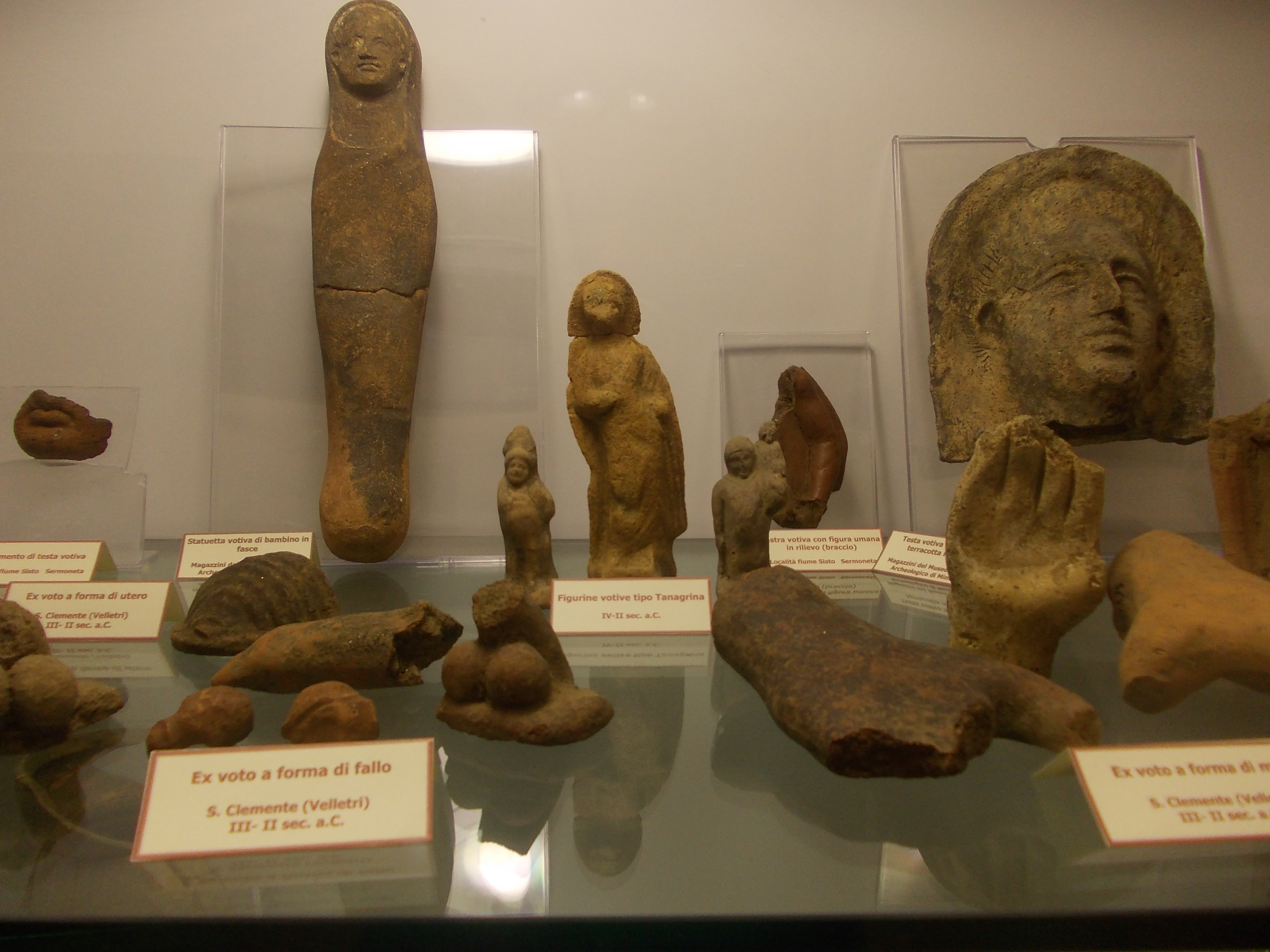 Sermoneta Pottery Museum. Relics